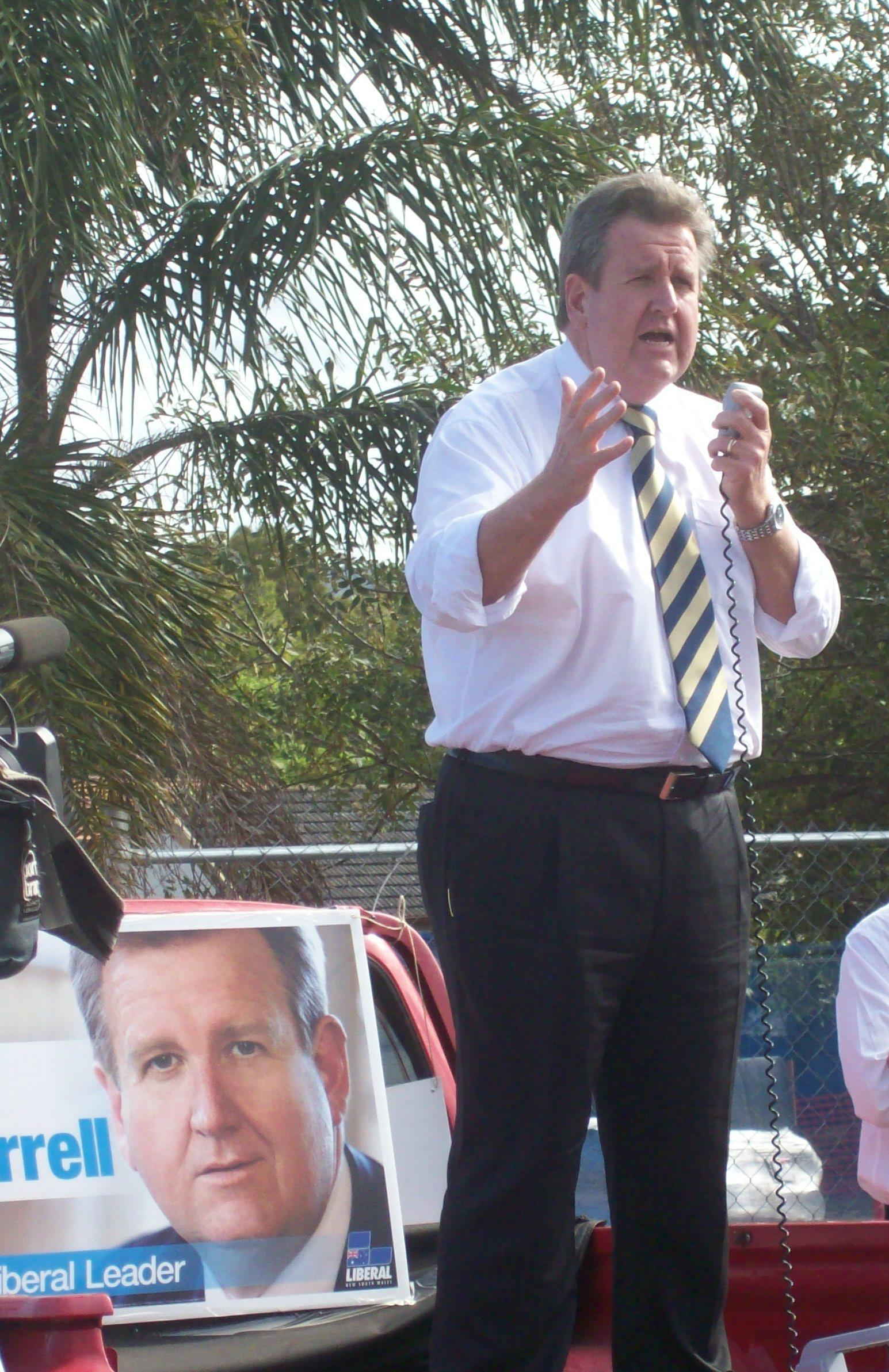 Leader of the Opposition Barry O'Farrell addresses a community meeting at The Entrance, New South Wales on March 3, 2010.